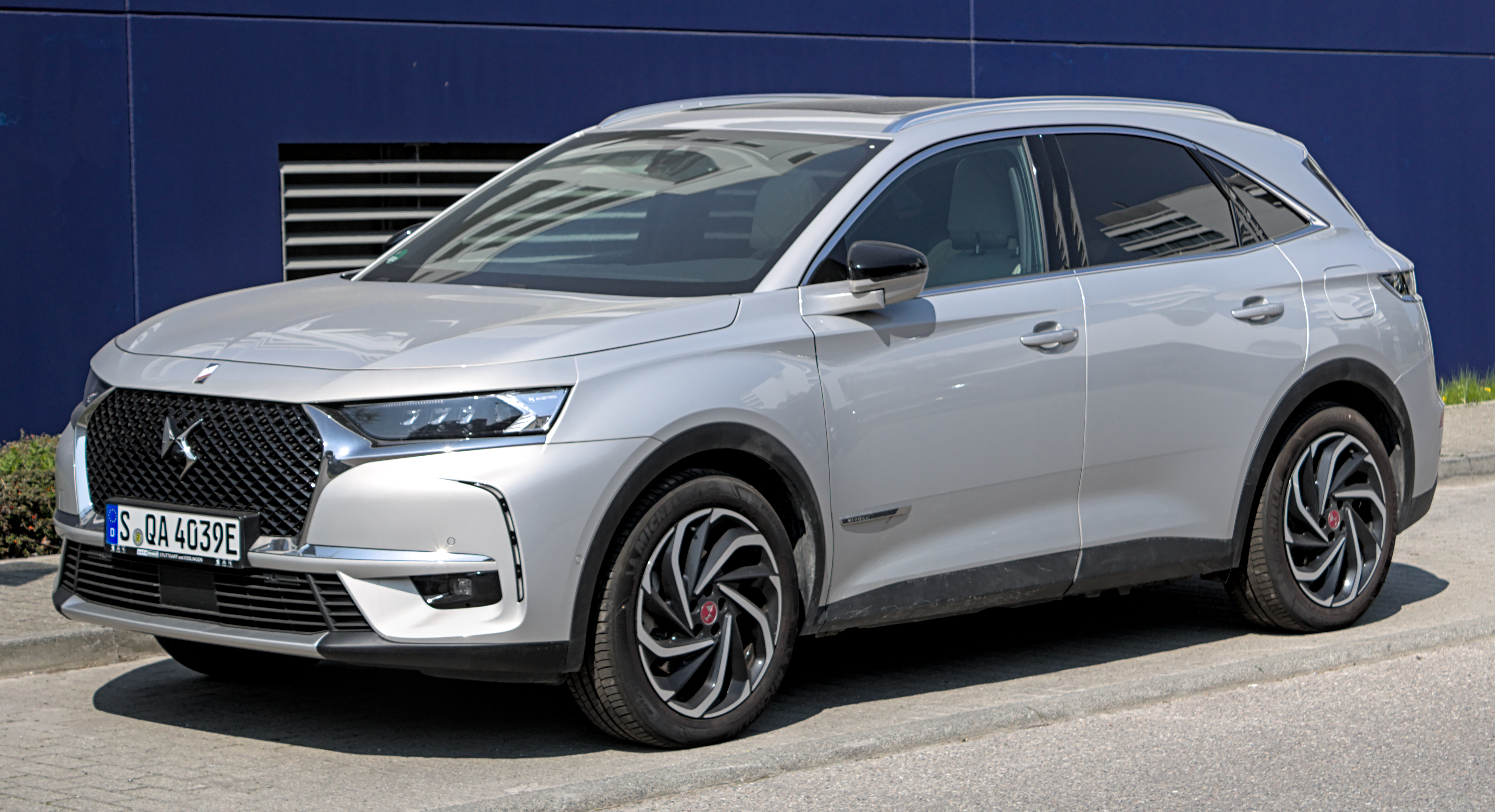 DS_7_Crossback_E-Tense in Stuttgart